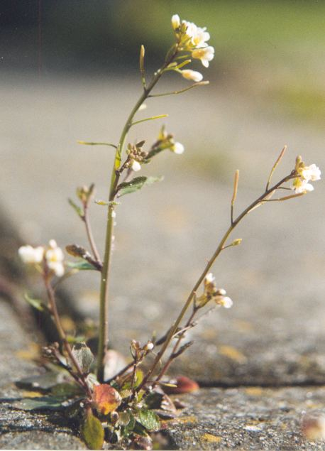 Arabidopsis thaliana Image from Afbeelding:Zandraket.jpg. Afbeelding:Zandraket.jpg no way